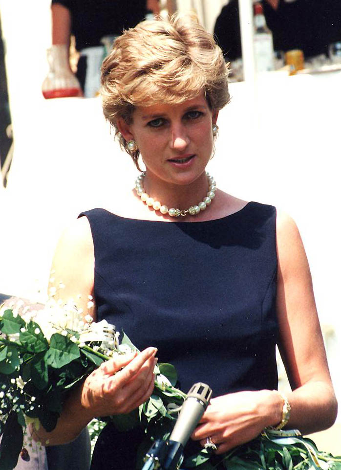 Diana, Princess of Wales while at The Leonardo Prize ceremony in 1995